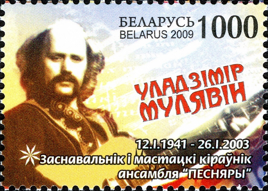 Vladimir Muliavin - Founder and Art Director of Belarusian folk group "Pesnyary"